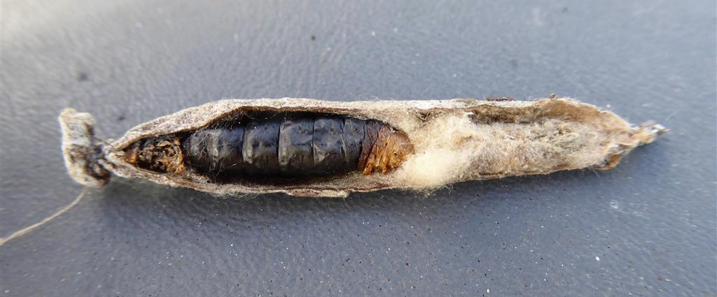 Case of Liothula omnivora bagworm cut open to show pupa.